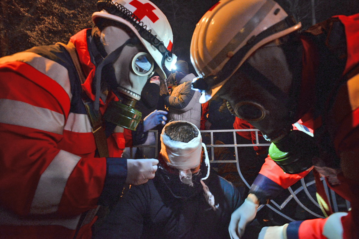 Ukrainian Red Cross Society volunteers administering first aid to a wounded protester. Euromaidan Protests. Events of Jan 19, 2014-2